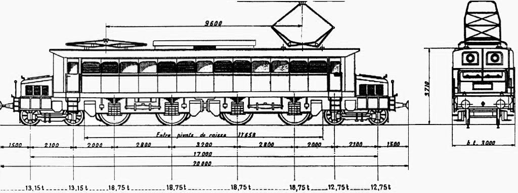 Drawing of electric prototype PLM 242 BE 1, 1927